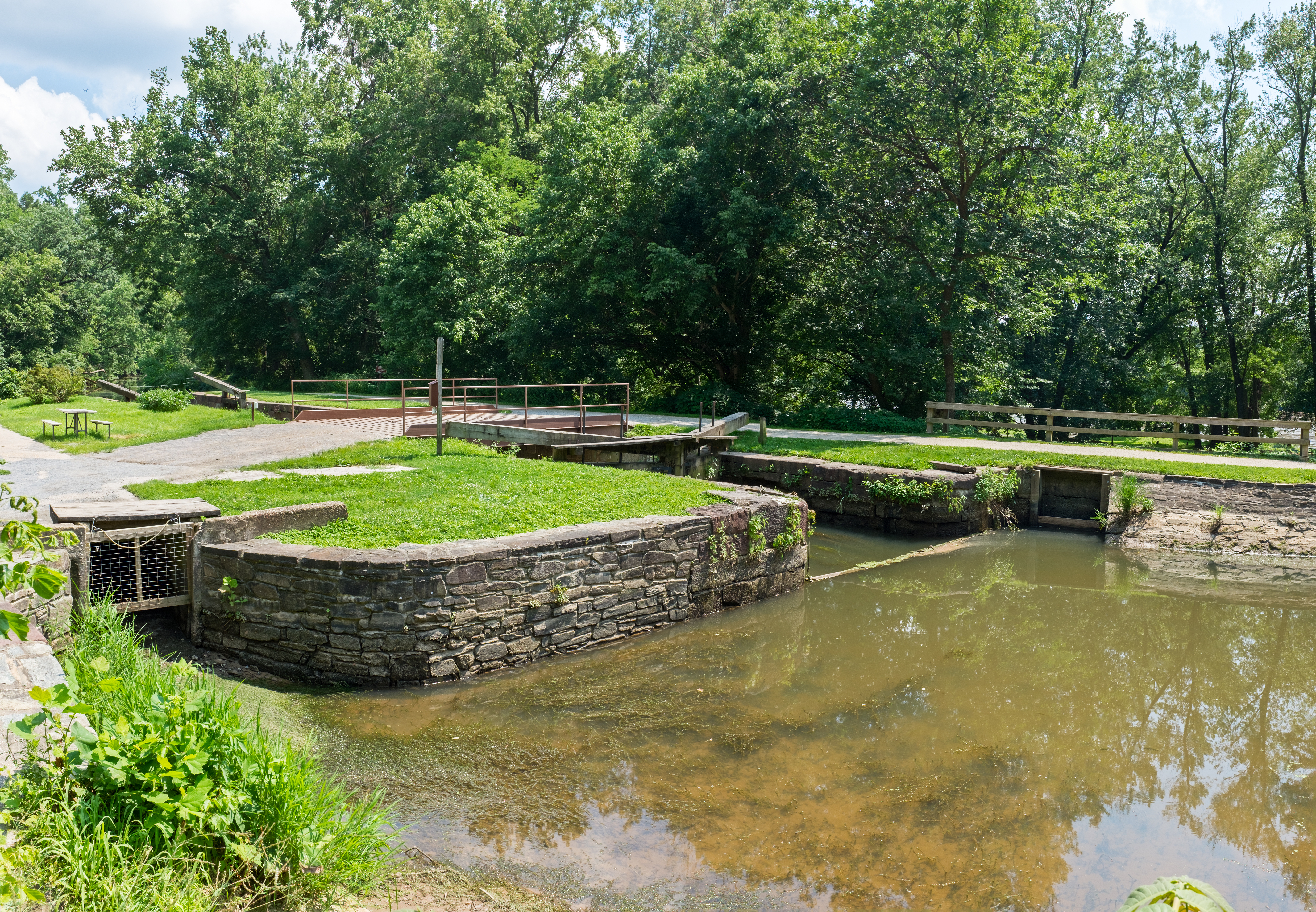 Swain's lock, from L to R, Bypass Flume, Lock, and Waste Weir. This shows a typical setup around a lock.